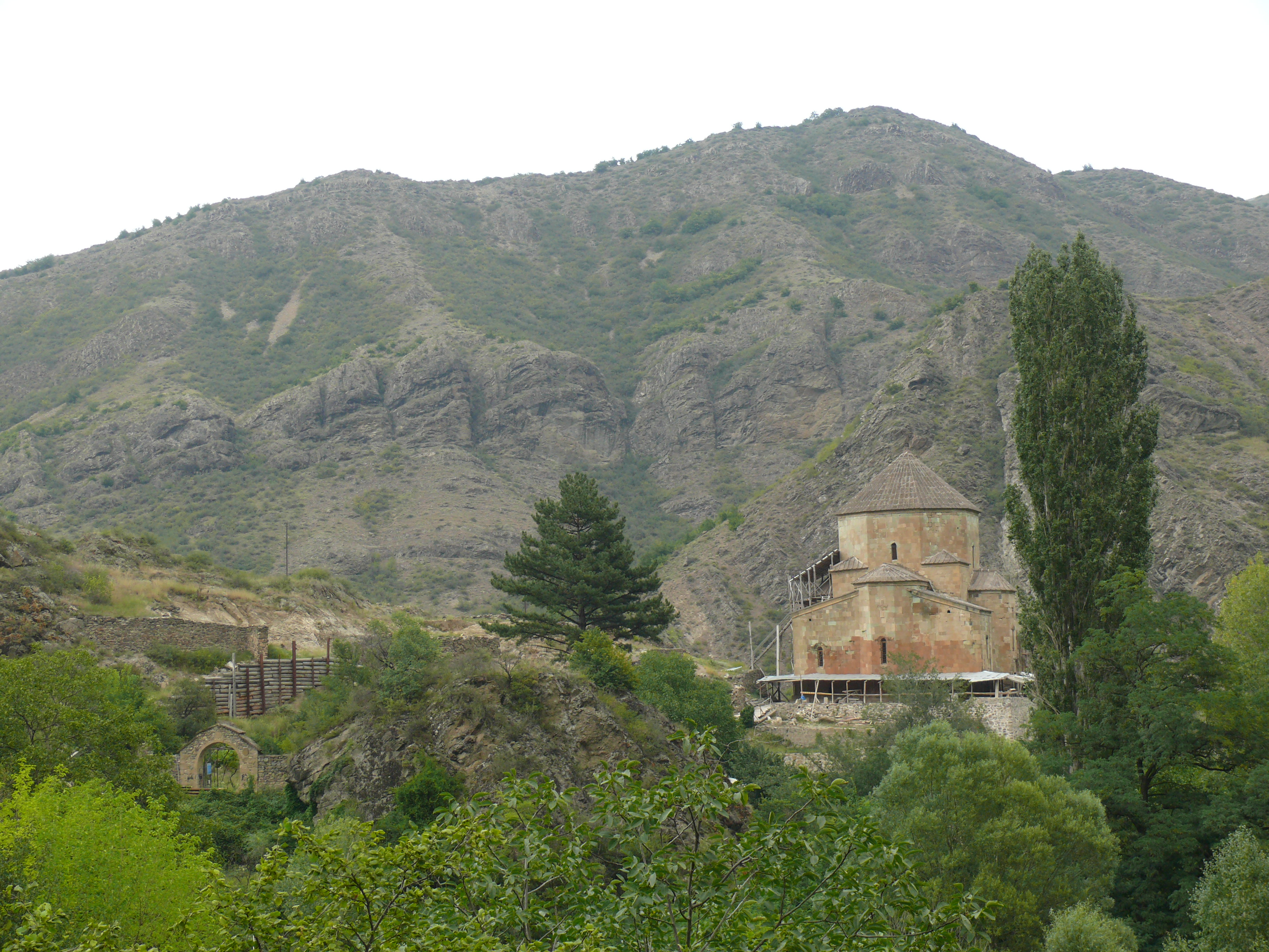 Ateni Sioni Church